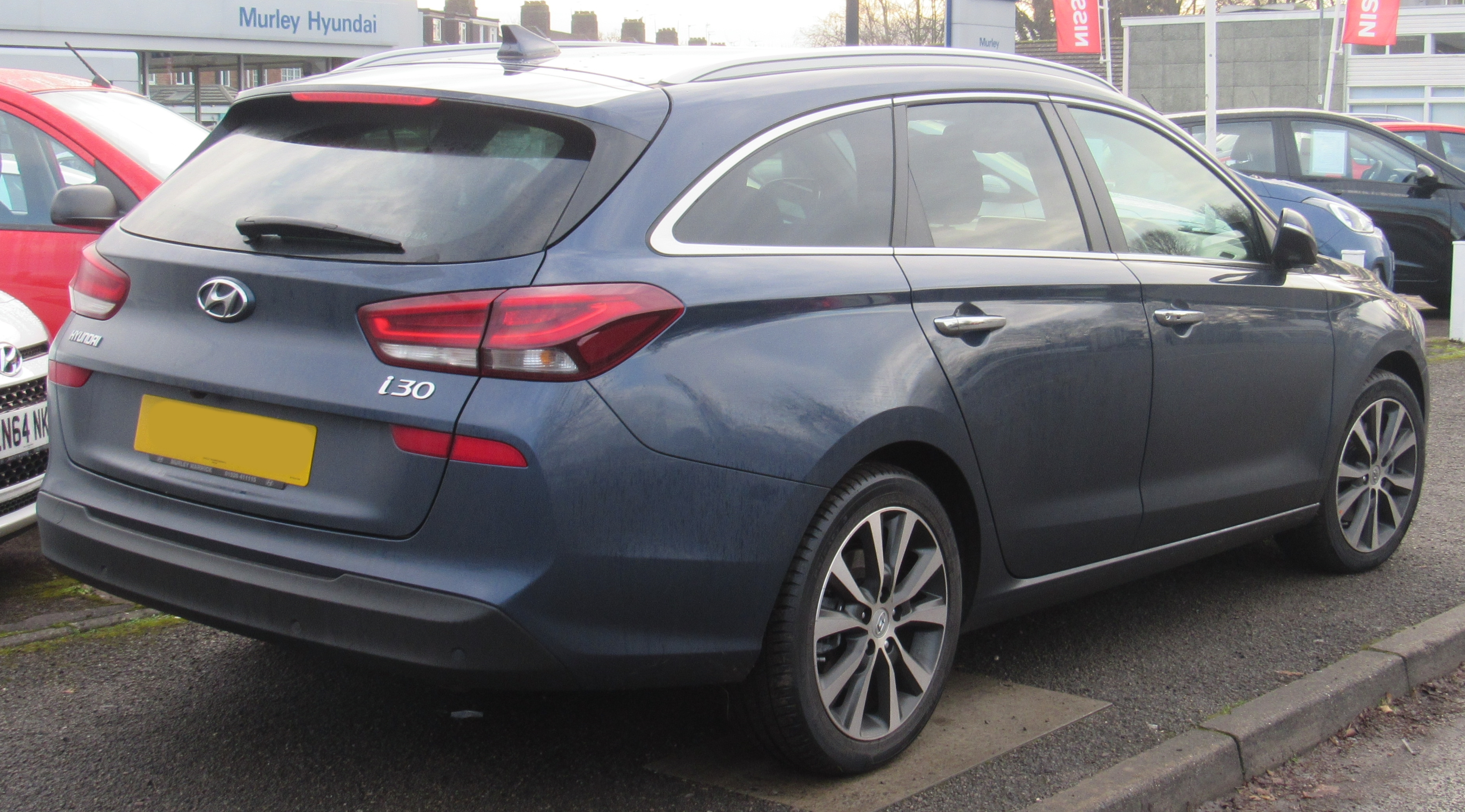 2017 Hyundai i30 Premium T-GDi Estate 1.4 Rear Taken in Warwick